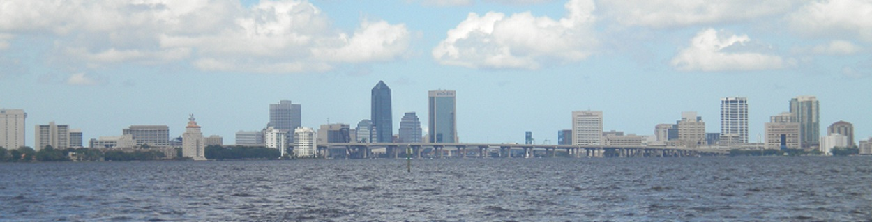 A panorama of the 2010 Jacksonville skyline from the Ortega neighborhood. This is the view many residents of that neighborhood have and it is even more spectacular at night.